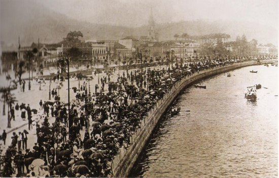 Audience watches the Rowing Championship 1905 in Botafogo